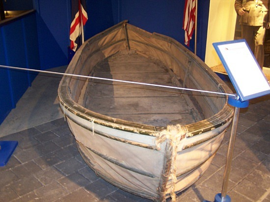 Goatley collapsible boat, wooden bottom and canvas sides, created by boat designer Fred Goatley